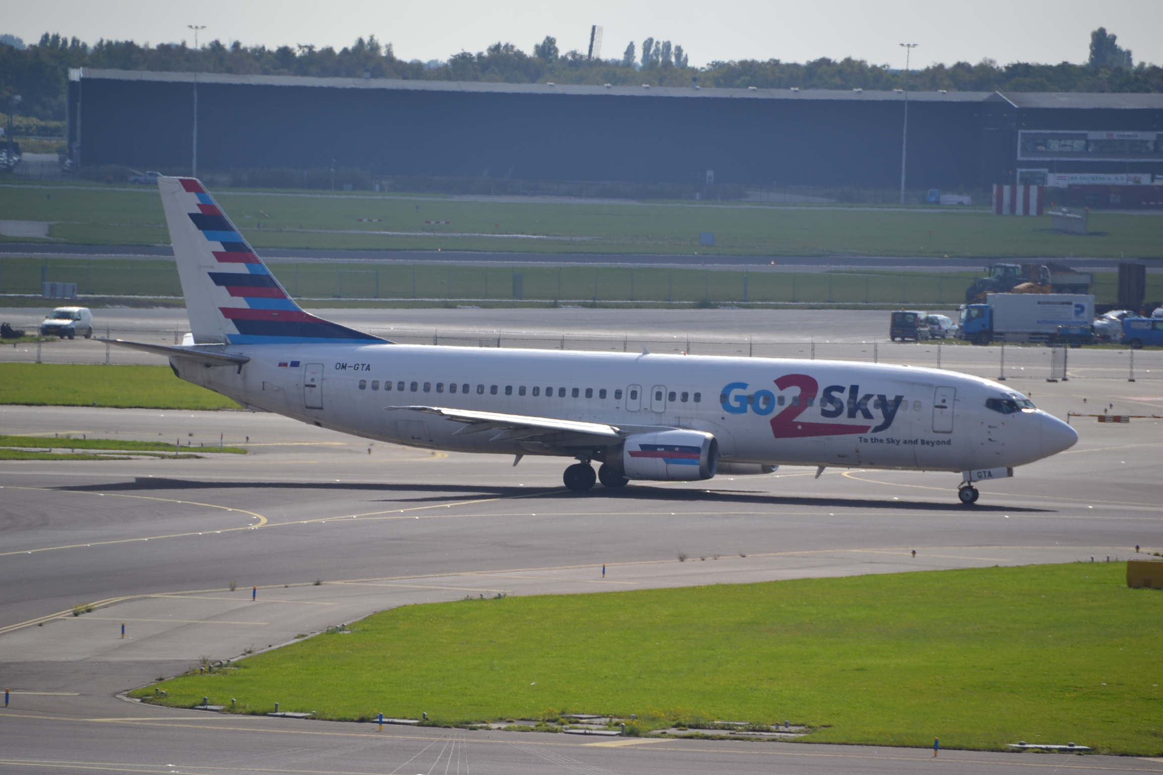 Boeing 737/4 of Go2Sky at Amsterdam Schipol-AMS, 12/09/14.